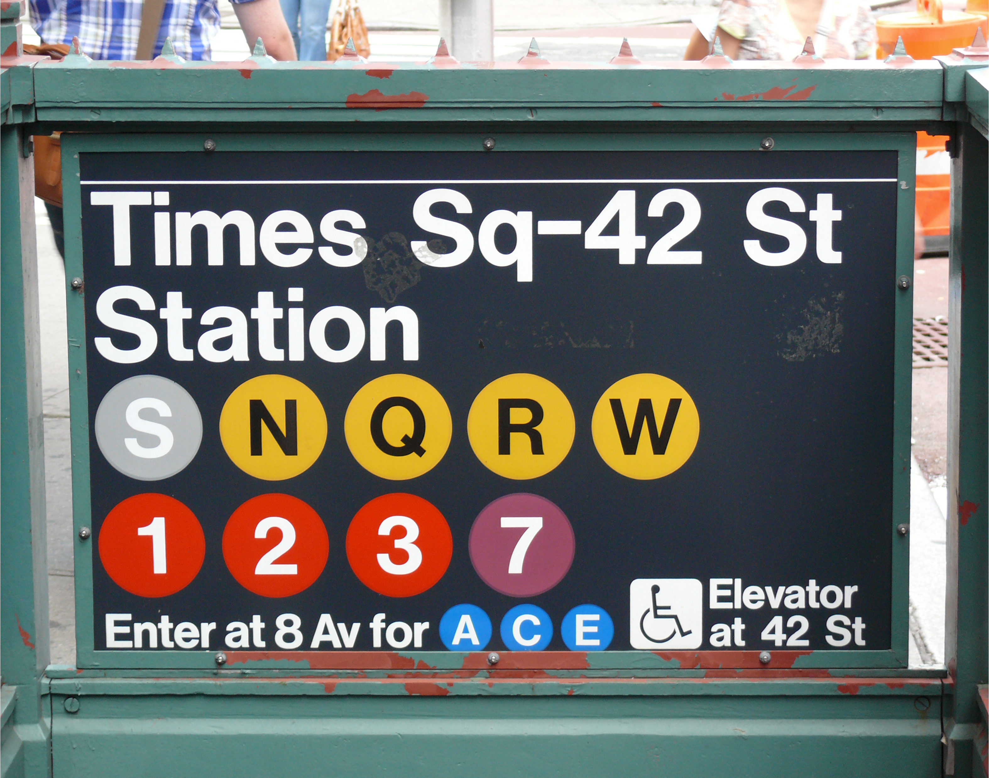 Times Square – 42nd Street is the busiest station complex of the New York City Subway, joining four lines (three trunk lines plus the 42nd Street Shuttle), with a free transfer via a passageway to a fifth (42nd Street – Port Authority Bus Terminal on the IND Eighth Avenue Line (A C E). It lies under Times Square, at the intersection of 42nd Street, 7th Avenue and Broadway.